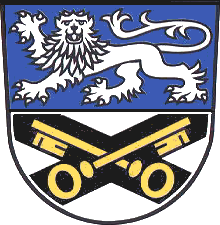 Coat of arms of Teistungen